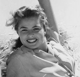 Excerpt from the Pin-up photo of Ingrid Bergman for the March 16, 1945 issue of Yank, the Army Weekly, a weekly U.S. Army magazine fully staffed by enlisted men.